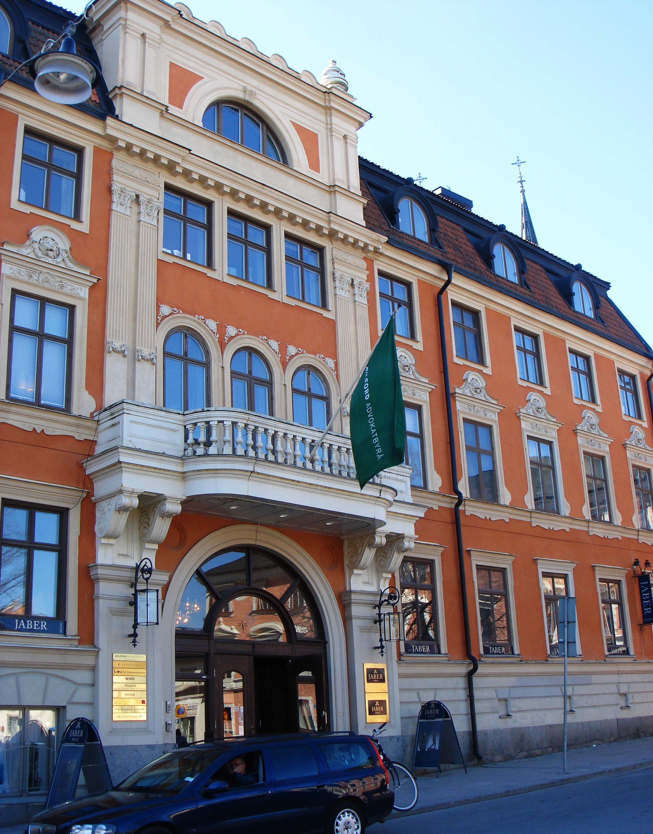 Photo of the former hotel Gillet (i.e. "The Guild") building. Uppsala, Sweden.